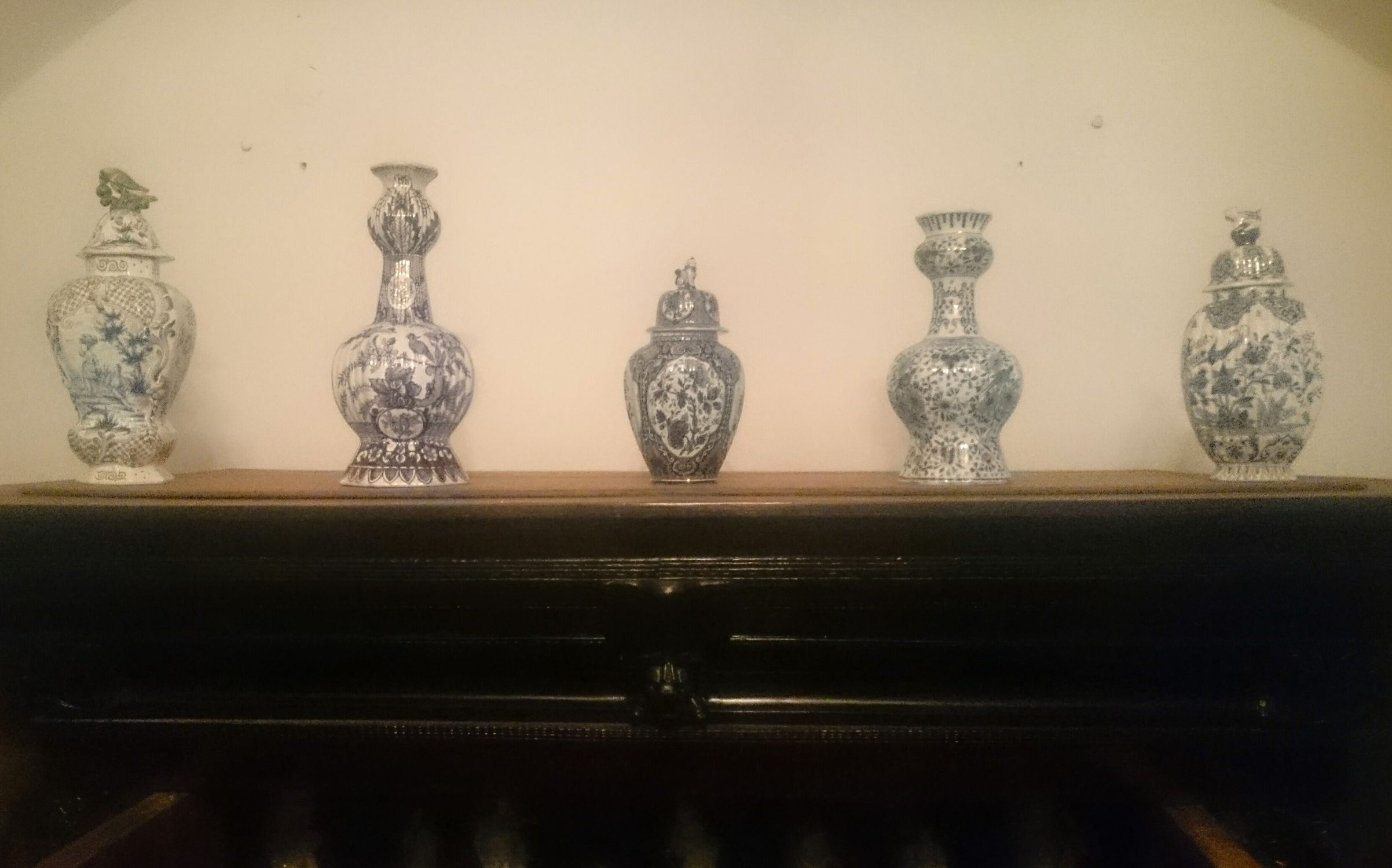 Vases and other things made of faience in Oporów castle-Museum.